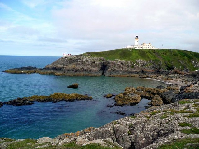 The discontinued Killantringan lighthouse "In January 2005, the three General Lighthouse Authorities (GLAs) of the UK and Ireland issued a consultation document following a joint review of Aids to Navigation of the coasts of the United Kingdom and Ireland. As a result of this review it was agreed to discontinue the light at Killantringan, which only served as 'waypoint'. Killantringan Lighthouse was therefore permanently discontinued with effect from 11 July 2007." Quoted from the Northern Lighthouse Board website.